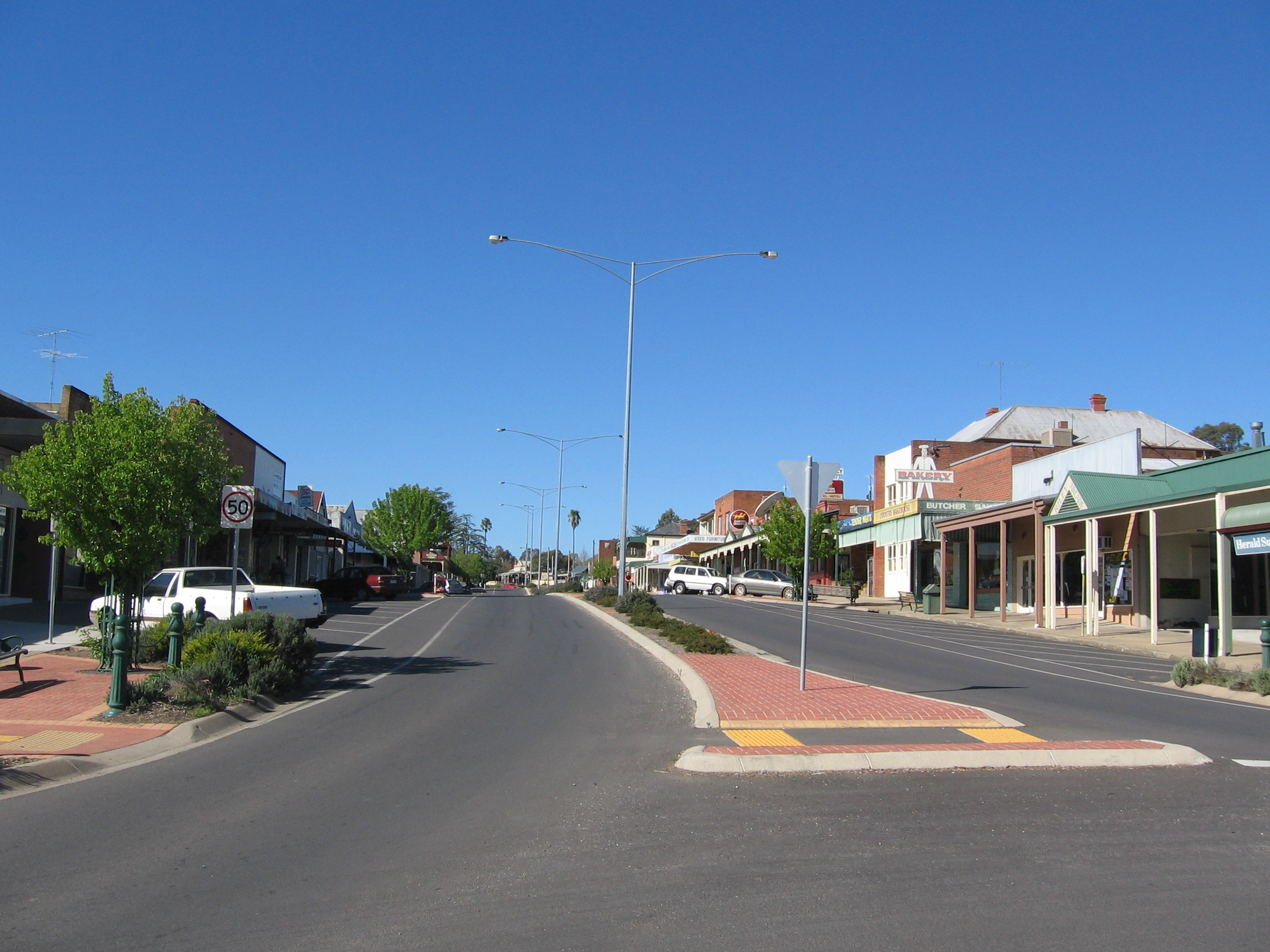 Hansen St (Murray Valley Highway), the main street of Corryong, Victoria